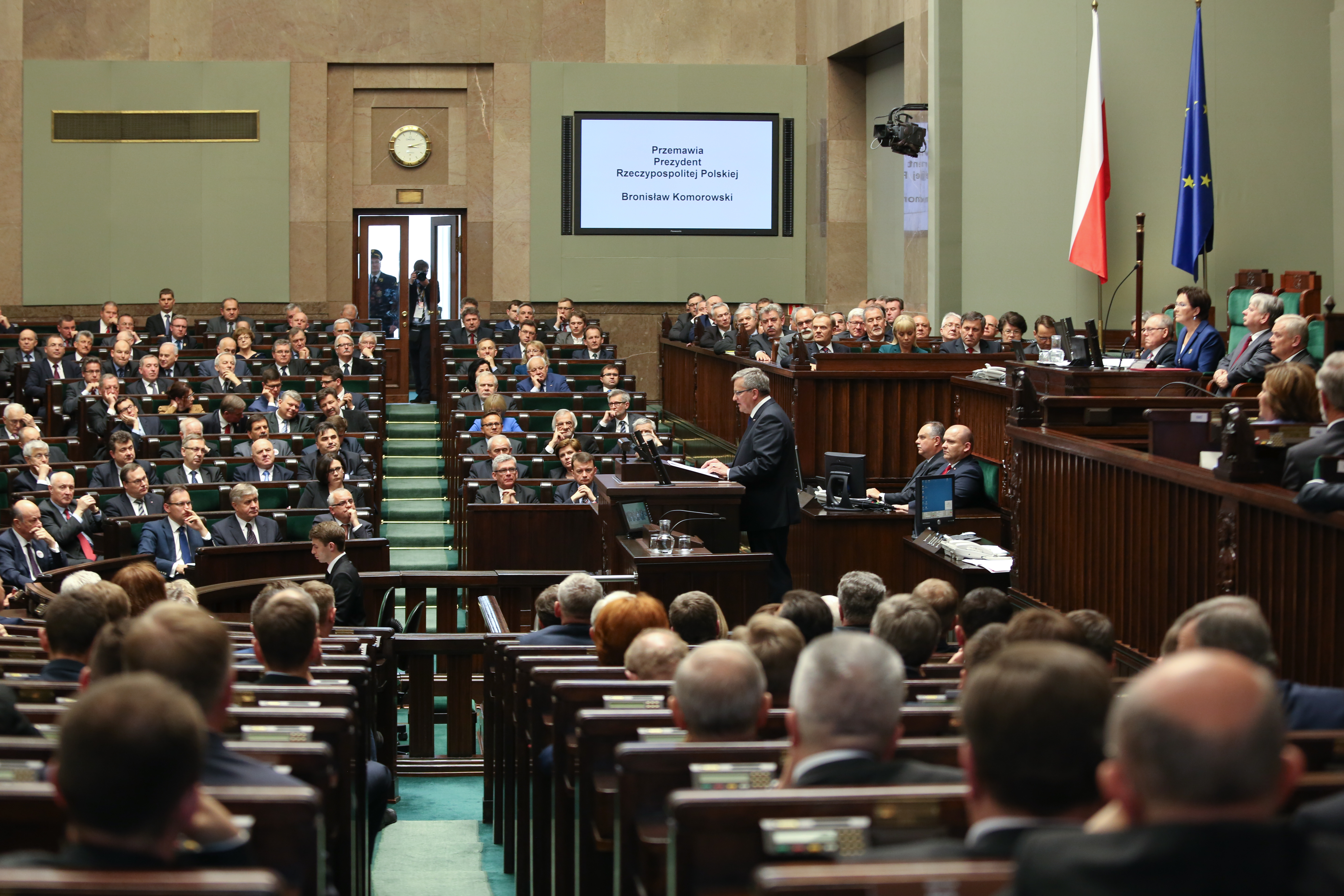 A National Assembly sitting on June 4th 2014